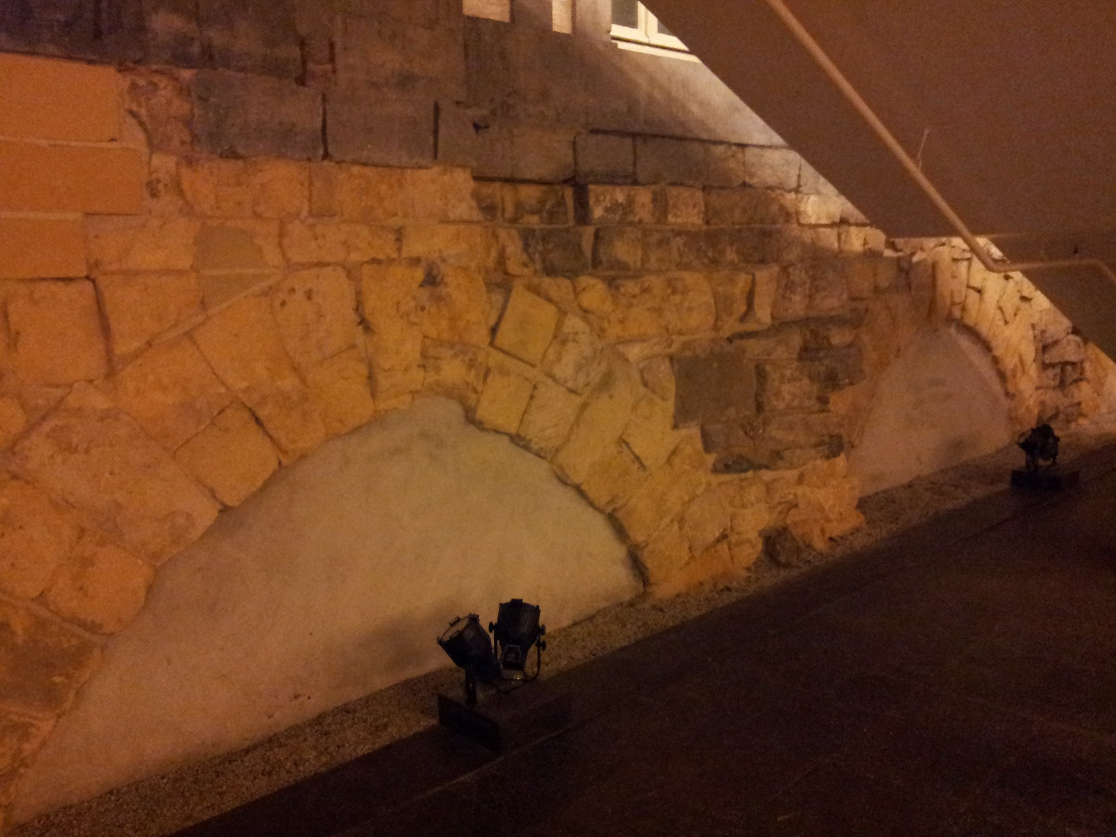 Maastricht, the Netherlands. Basement foyer of Theater aan het Vrijthof. The wall shown here was once part of a medieval nunnery, the Wittevrouwenklooster ("monastery of the white women"), later incorporated in the 1805 Generaalshuis mansion, now part of the city's main theater.